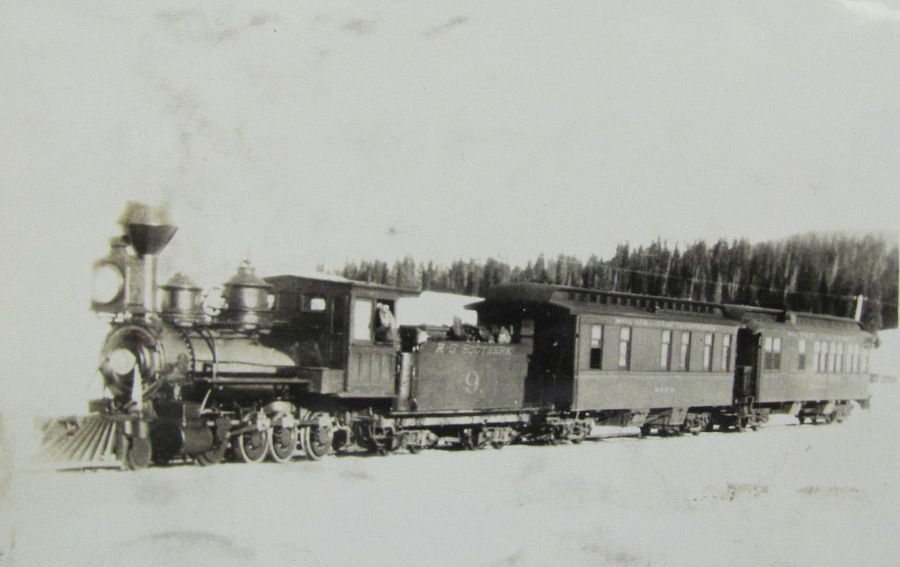 Rio Grande Southern Railway Company Locomotive -9 in regular passenger service with 2 car passenger train somewhere in the Colorado Rockies ca. 1870's